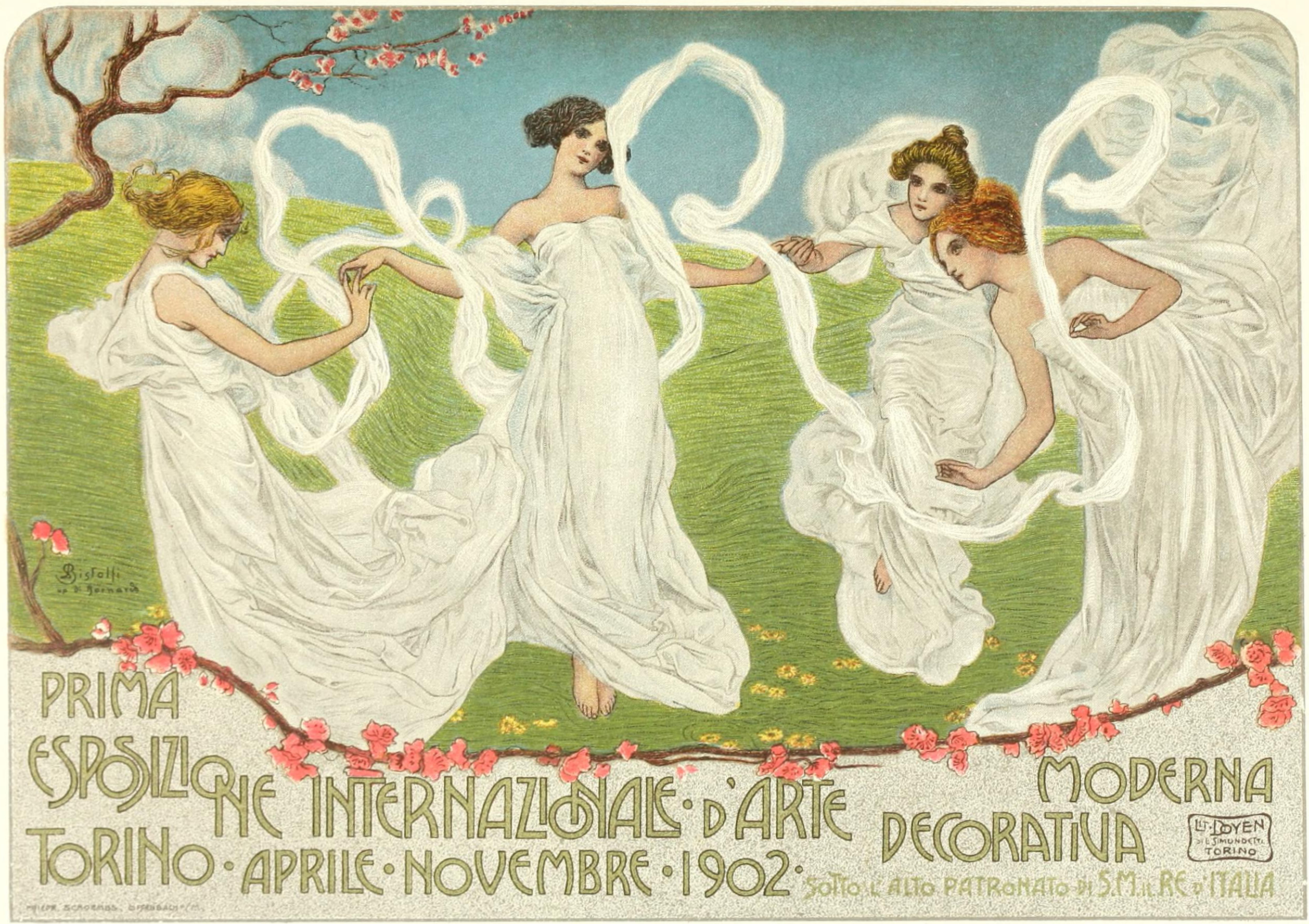 Poster by Leonardo Bistolfi.